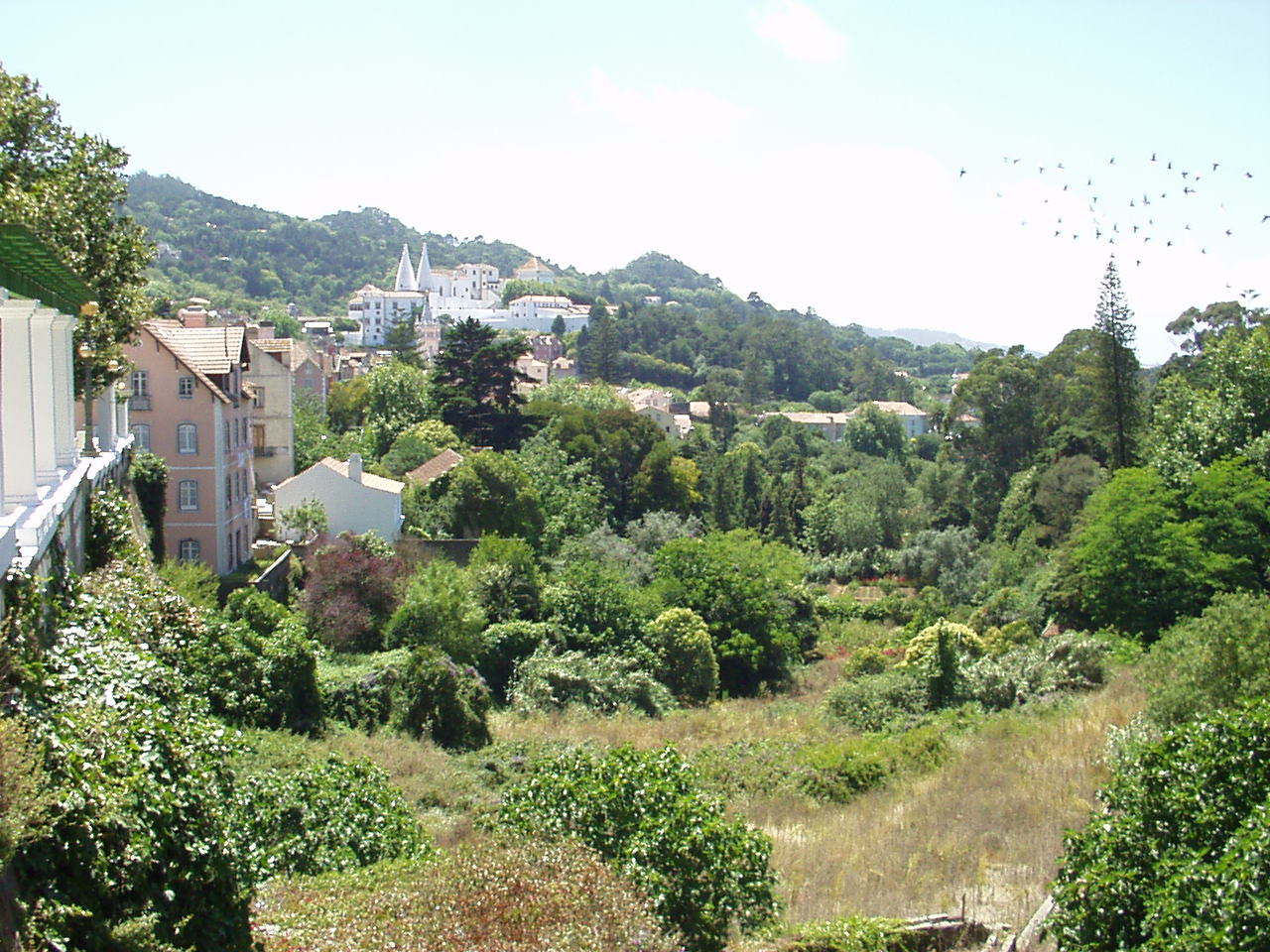 Sintra town, Portugal